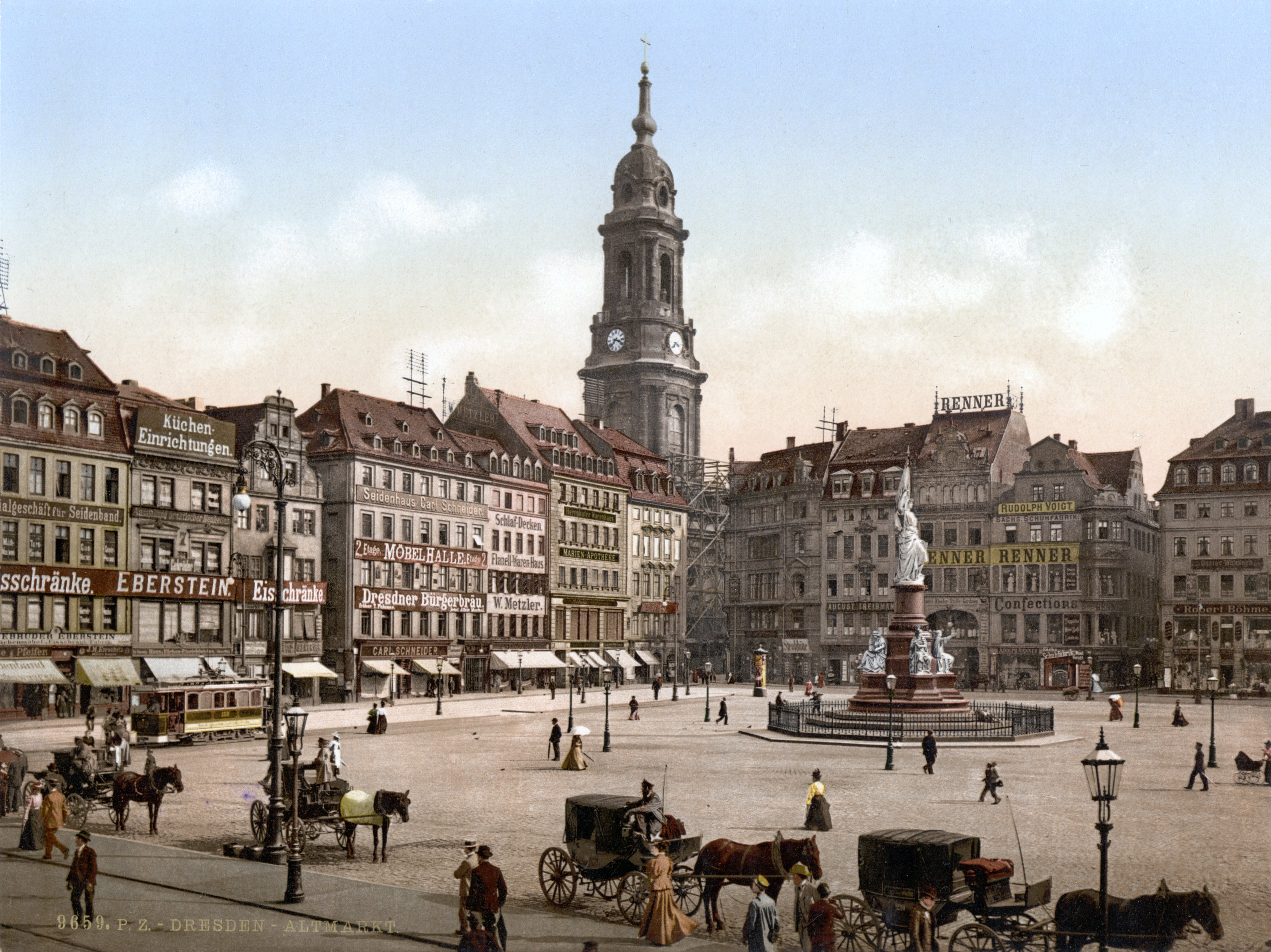 Dresden (Saxony, Germany) - Altmarkt (Old Market Place) with Kreuzkirche